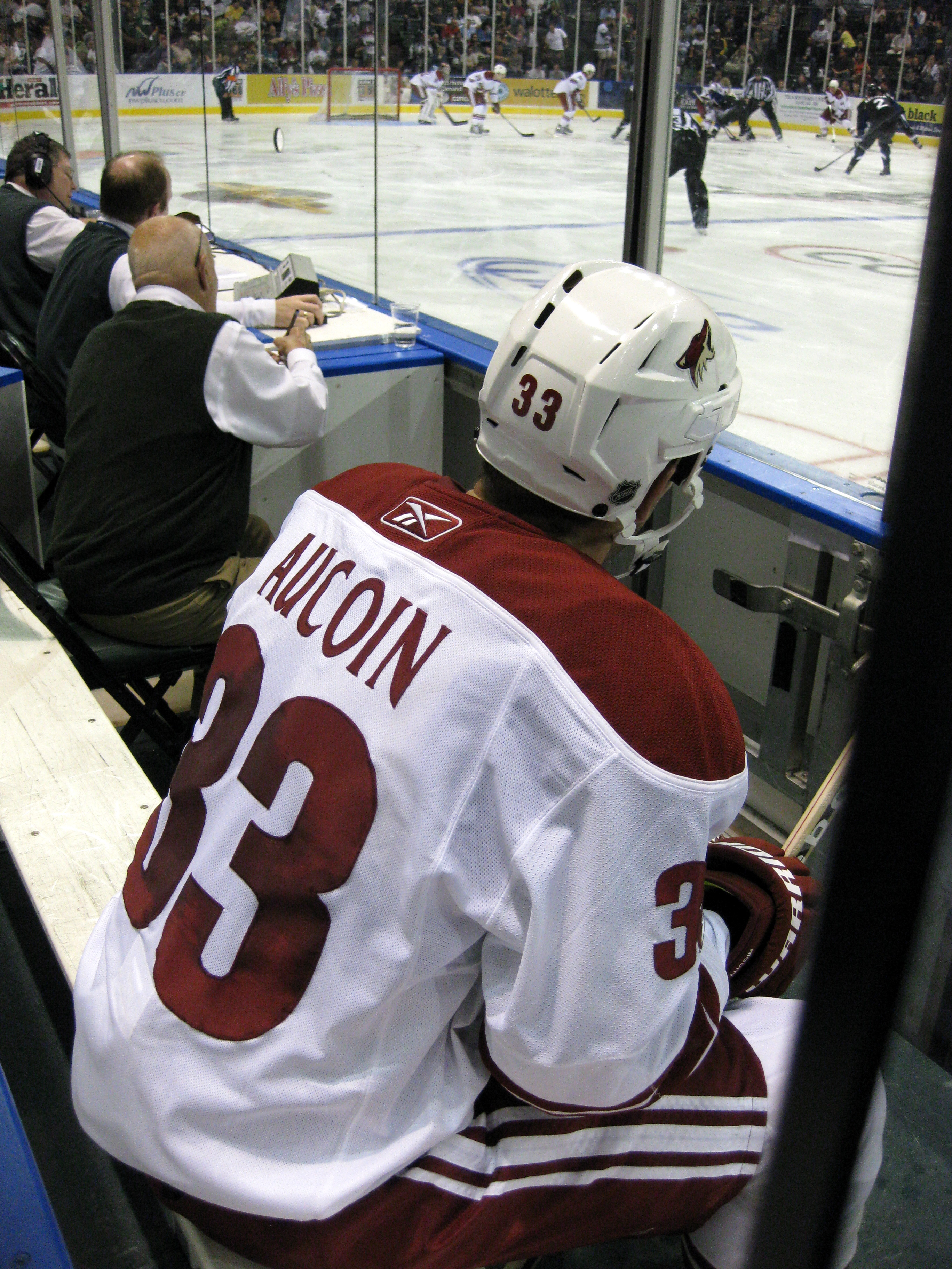 Pictures from the NHL Exhibition from Everett, WA between the Tampa Bay Lighting and the Phoenix Coyotes